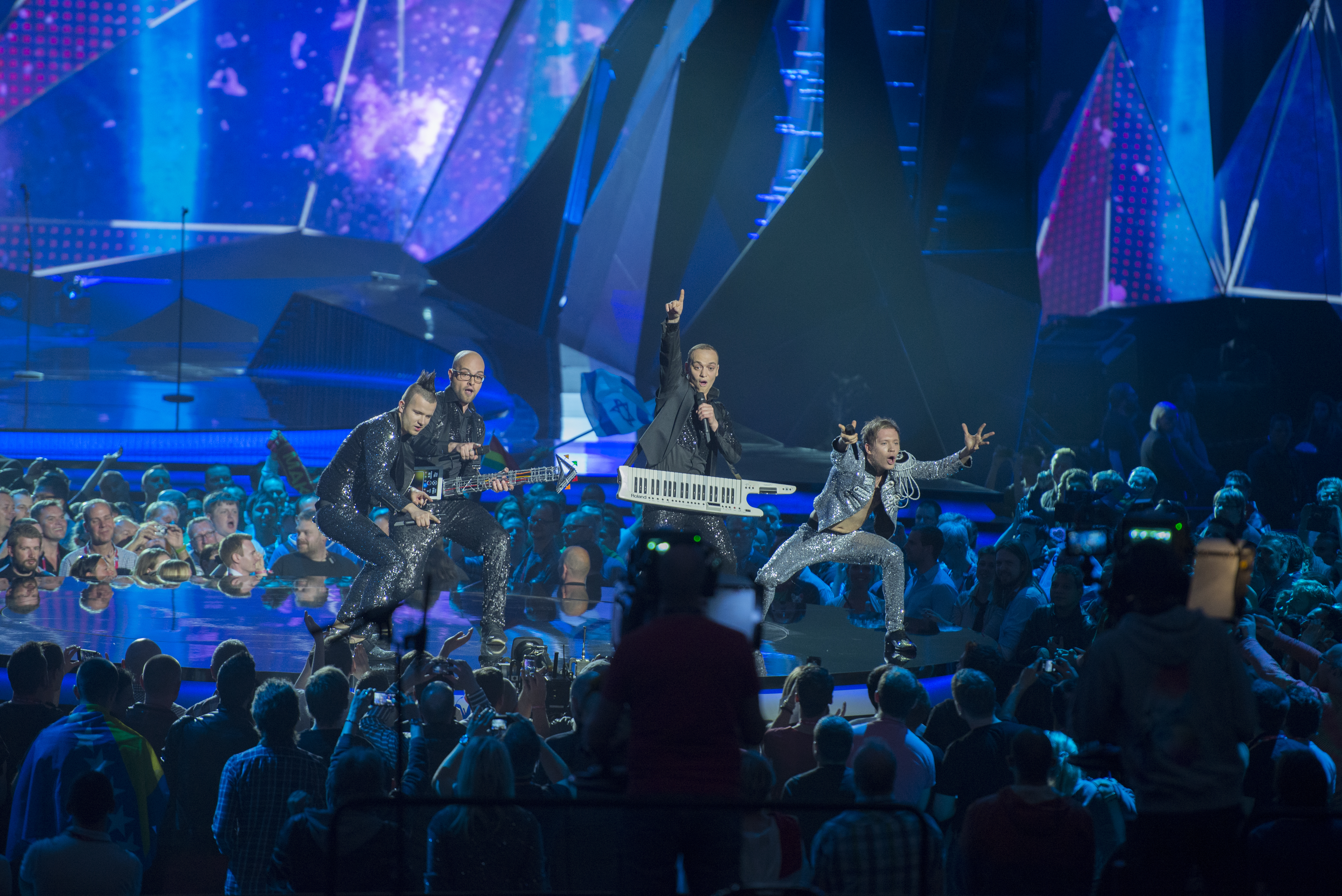 PeR representing Latvia with the song "Here We Go" during the second dress rehearsal of the second semi final of the Eurovision Song Contest 2013 in Malmö. (Help translate this text)